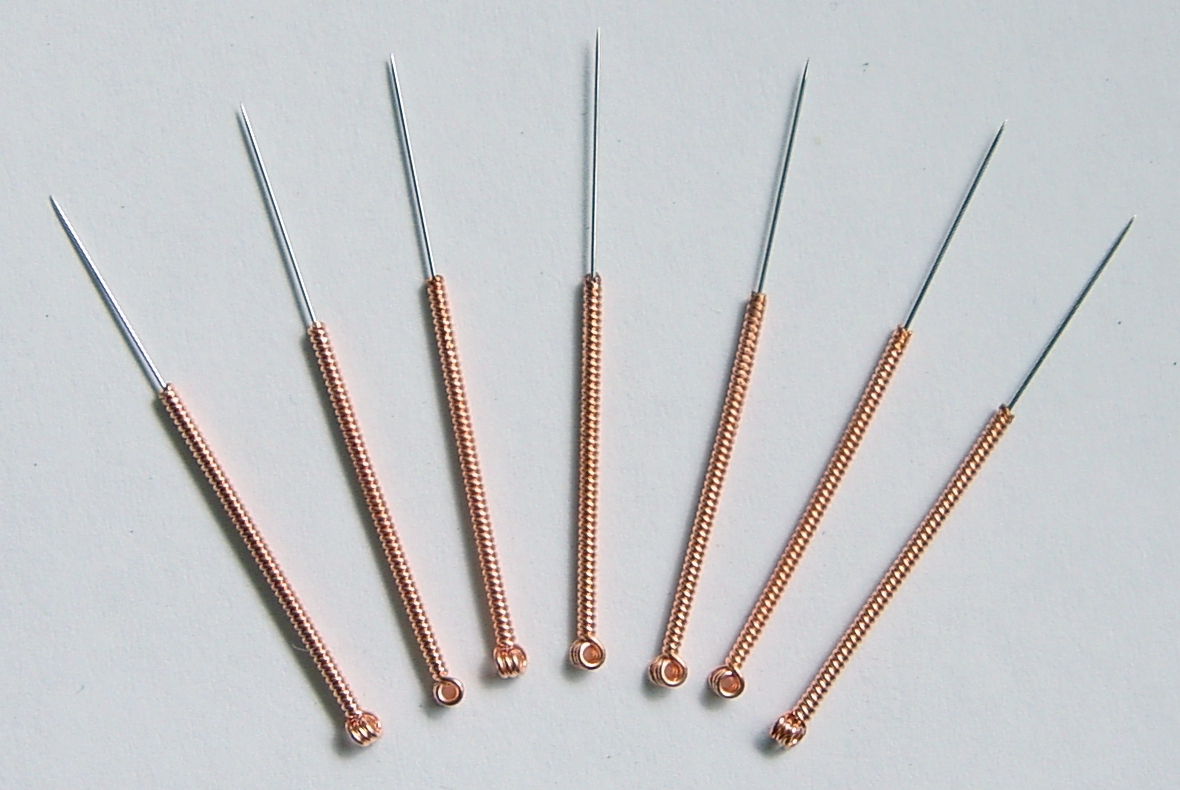 Acupuncture needles.